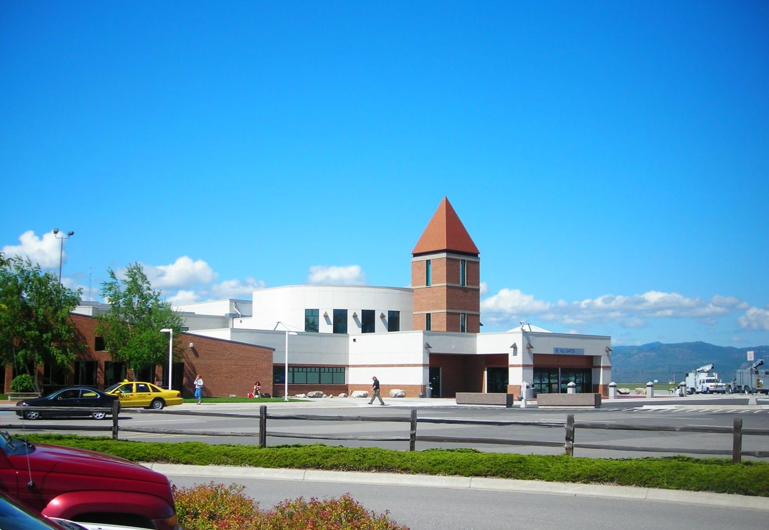 Terminal at Missoula International Airport, Montana, USA